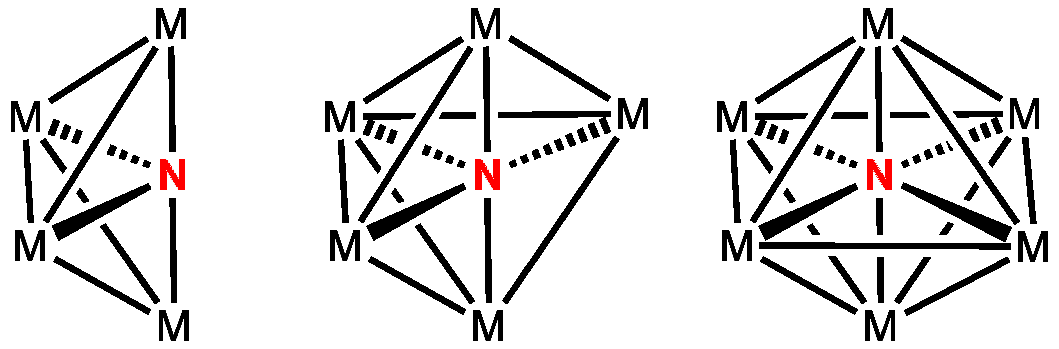 Structure of M4, M5, and M6 frameworks for molecular interstitial nitrides